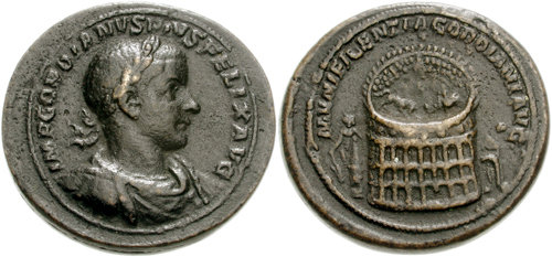 Gordian III. by an uncertain artist. 18th century. Æ "Medallion" (39mm, 52.74 g, 12h). IMP GORDIANVS PIVS FELIX AVG Laureate, draped, and cuirassed bust right, seen from front MVNIFICENTIA GORDIANI AVG, bull contending with elephant within the Colosseum, seen from above; Colossus of Nero and Meta Sudans, and the Temple of Venus and Rome, or the Ludus Magnus on either side.